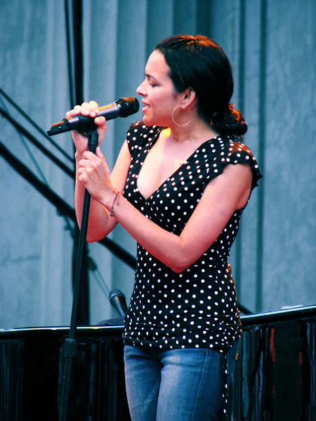 Norah Jones performing at the Greek Theater in Berkeley, California. On tour June 23rd, 2007. Photograph by Nathan Yan